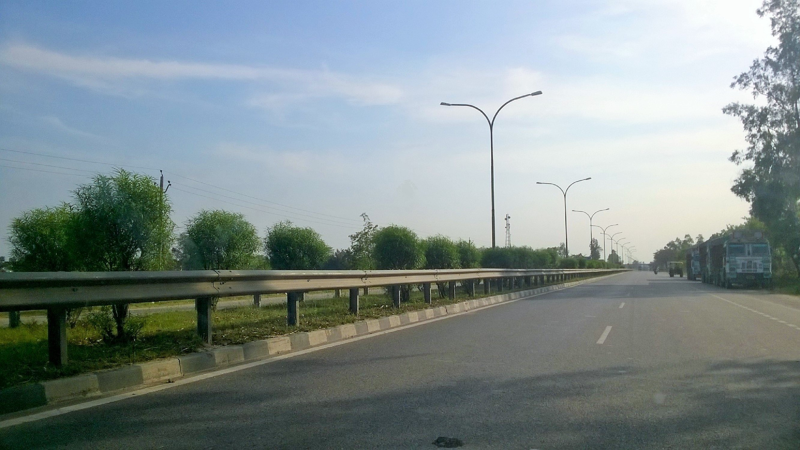 NH 28 passing near Basti, Uttar Pradesh, India